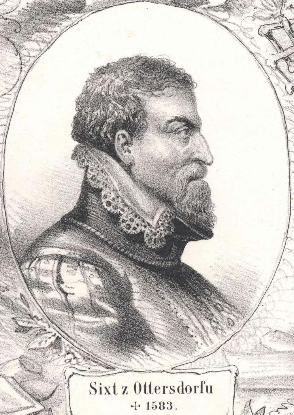 Portrait of Sixt z Ottersdorfu (1500 - 1583), Czech historian, translator and politician.